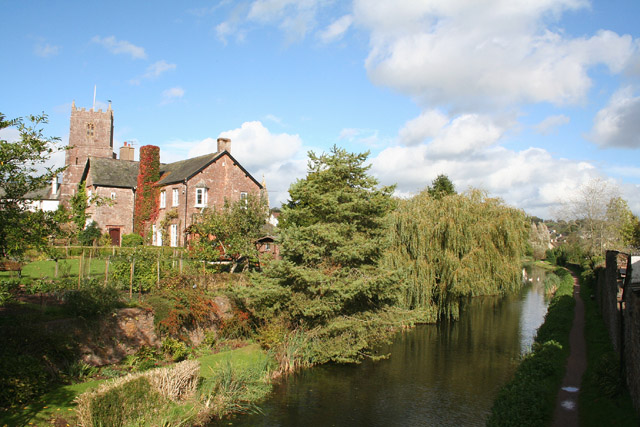 Sampford Peverell: Grand Western Canal and church The canal cuts right through the village. Sampford Peverell church is dedicated to St John the Baptist. The house in front of the church is the old vicarage